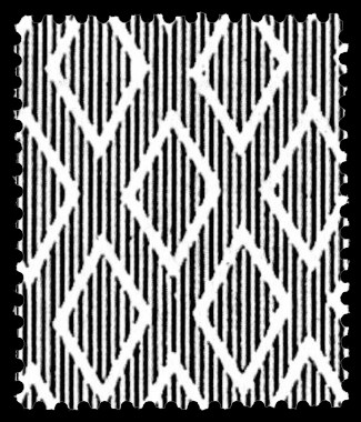 Watermarks "Lozenge" on the postage stamps for German colonies of SMY Hohenzollern series, 1905-1919